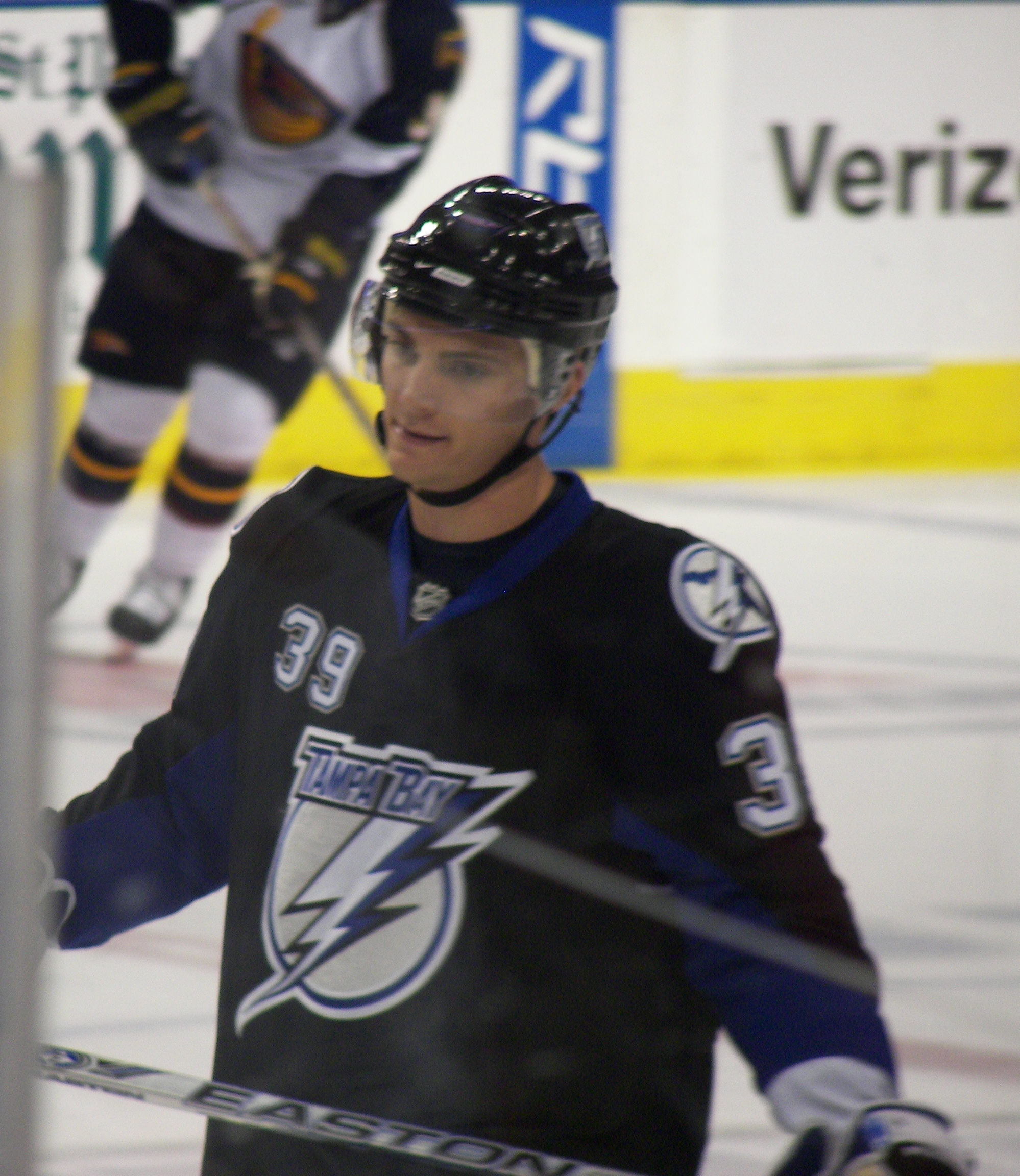 Mike Lundin of the Tampa Bay Lightning during a Lightning vs. Atlanta Thrashers ice hockey game at the St. Pete Times Forum in Tampa, Florida on October 20, 2007.